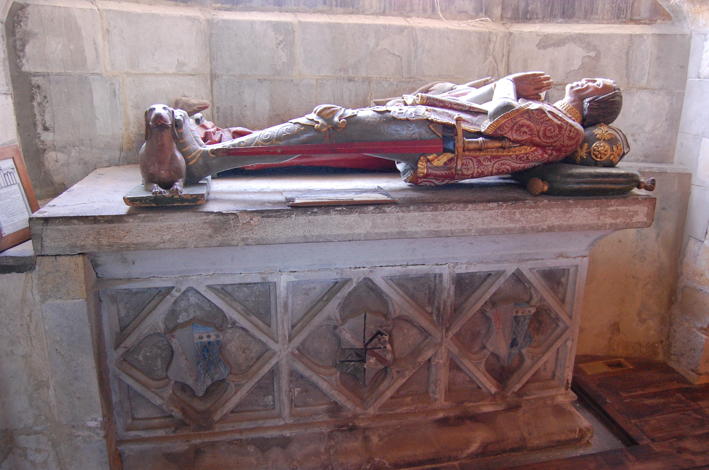 In 1425 Walter Culpeper married Agnes Roper, widow of John Bedgebury, and the Bedgebury estate came into the Culpeper family. Walter died in 1462 and has a monumental brass in the church. Their son Sir John Culpeper, d 1480 and his wife were interred in the arched tomb in the church. A brass shows him in armour, but the brass of his wife and children is missing. It is thought this may have been used as an Easter sepulchre. Their son Sir Alexander, d 1541 "The Olde Sir Alexander" used his iron foundries in Bedgebury to cast guns for the fleet that fought the Spanish Armada. He and his wife, Constance are commemorated in a wooden painted effigy in the church. It was carved and painted in 1537 during the Reformation, and is one of only eighty or so of its kind in the country.